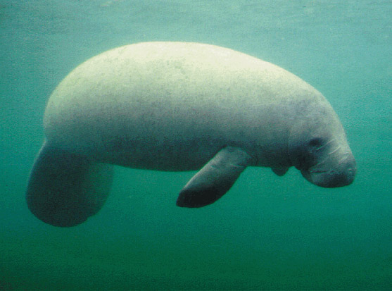 A West Indian Manatee, a member of Order Sirenia in Florida waters.